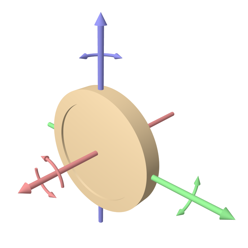 Gyroscope flywheel diagram. Rendered using POV-Ray.